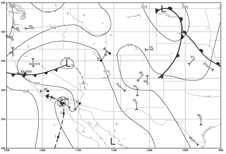 Weather map for 1400 LT 2 Oct 1858 when the hurricane was probably at its nearest approach to San Diego. Because of apparent inconsistent adherence to the recommended wind force scales by many of the U.S. Army weather observers, the estimated wind speeds were omitted. The thick dashed line indicates the likely track of the hurricane with approximately 1200 UTC positions shown